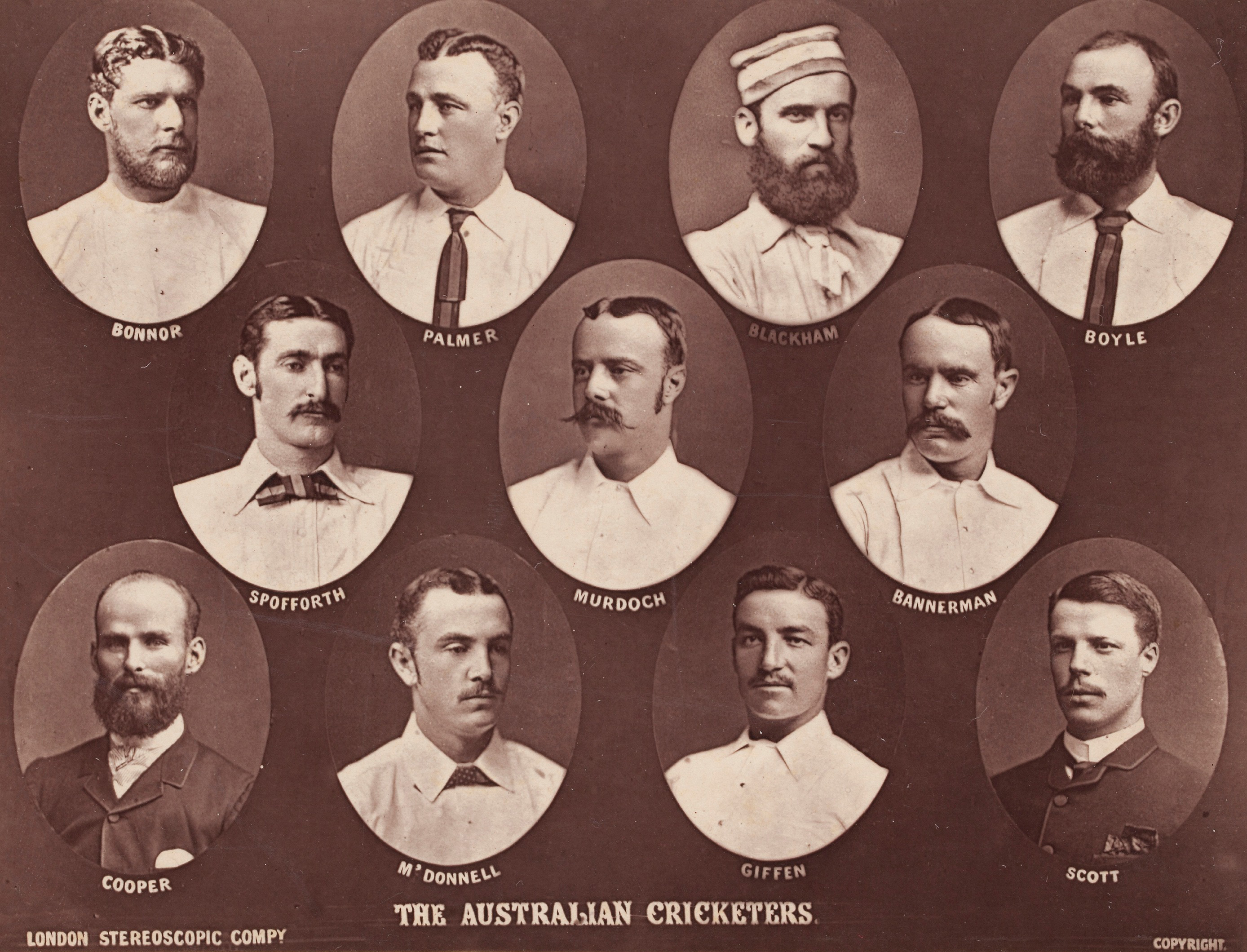 Australian cricket team in England, ca. 1884, Bonnor, Palmer, Blackham, Boyle, Spofforth, Murdoch, Bannerman, Cooper, McDonnell, Griffin, Scott by London Stereoscopic Company, State Library of New South Wales, PXA 1031